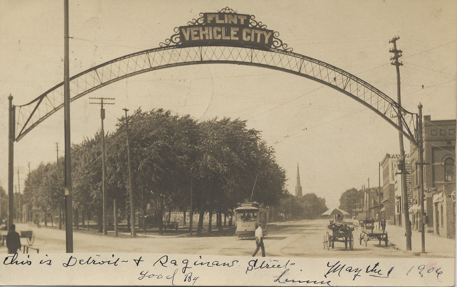 3.5x5.5 black and white postcard showing corner of Detroit and Saginaw streets in Flint, seen through wrought iron arch with sign "Flint Vehicle City"